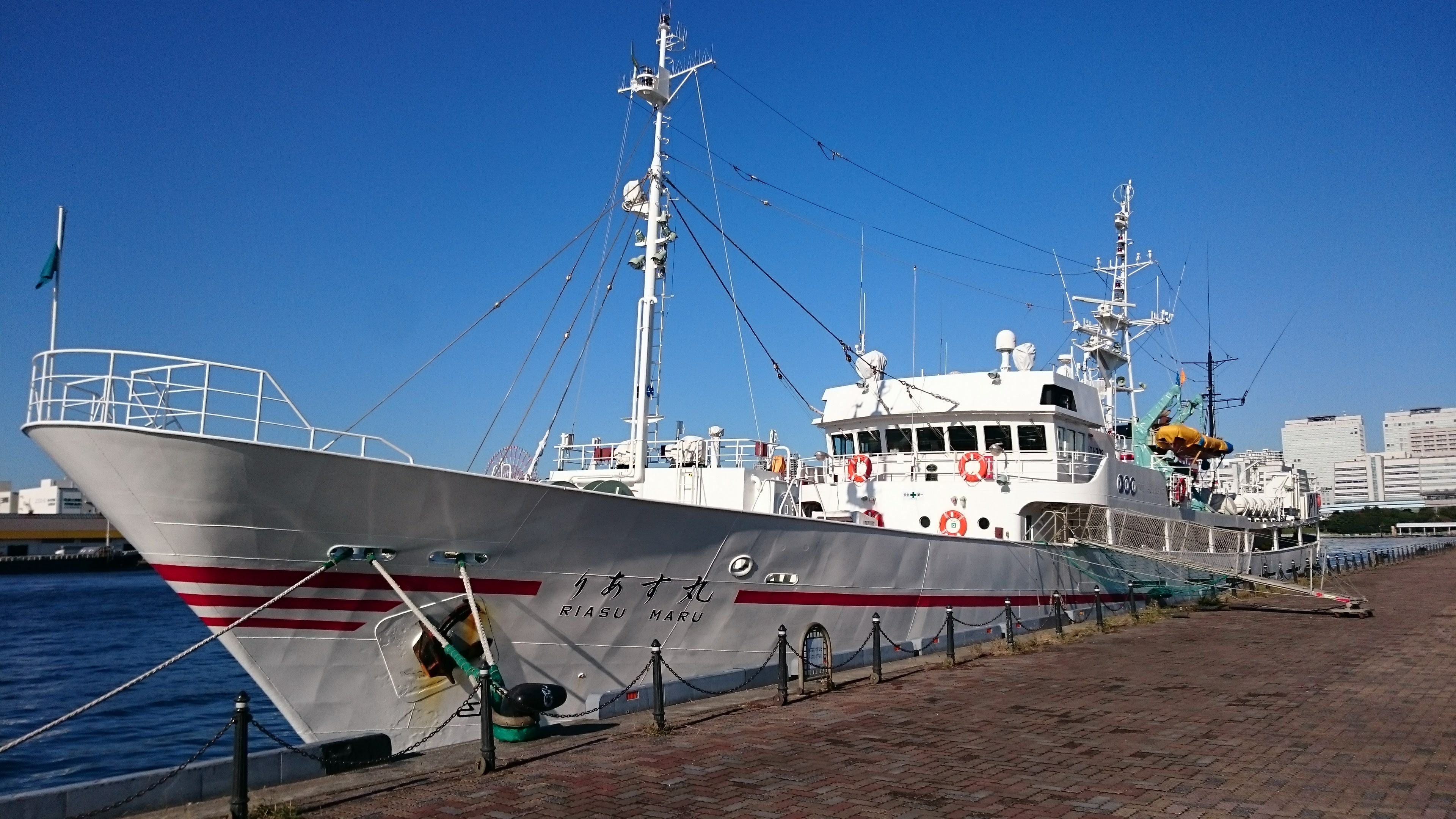 Japanese fisheries training ship "Riasu Maru" in Tokyo Port.